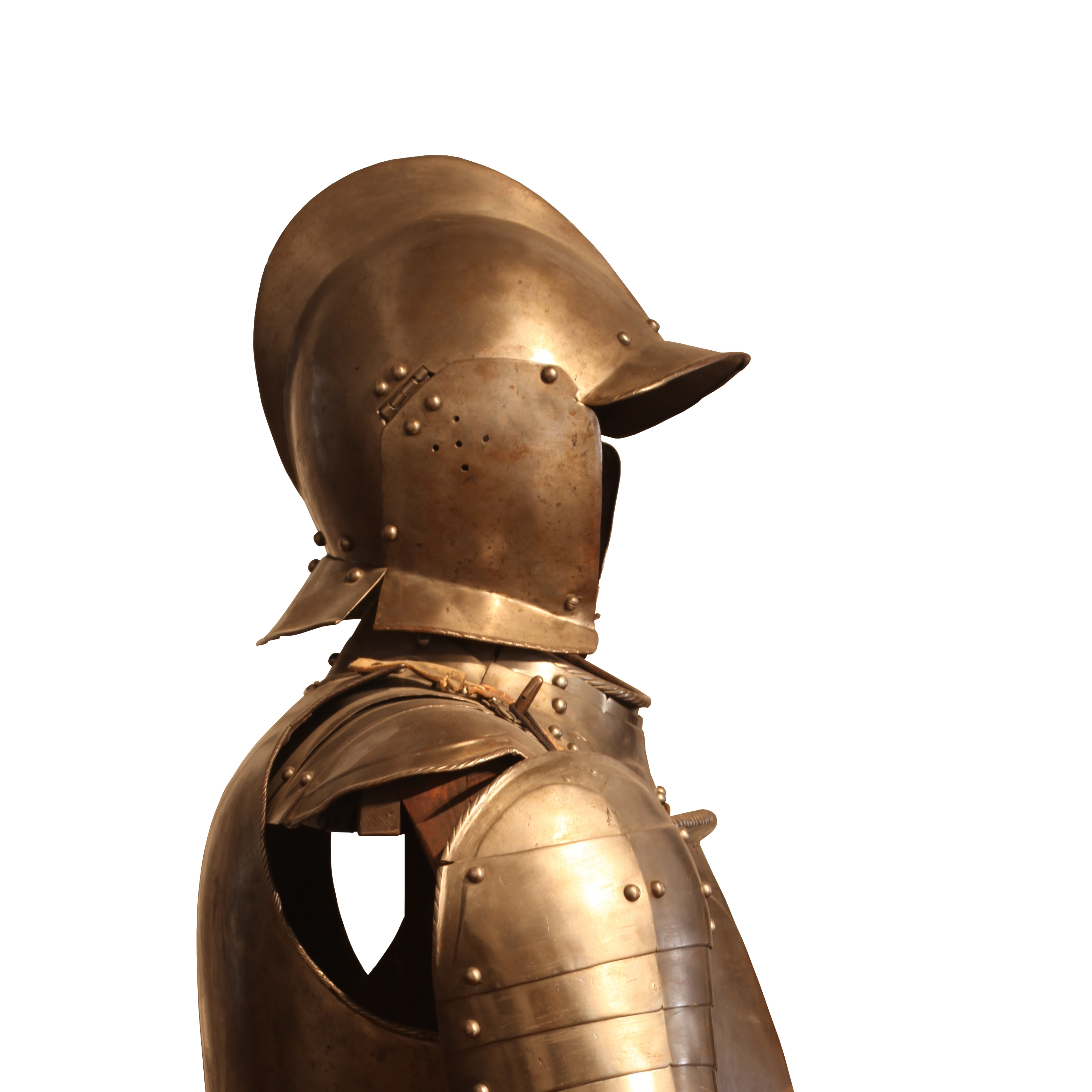 Footman's armour in Savoyard style, ca. 1600-1610. On display at Morges military museum